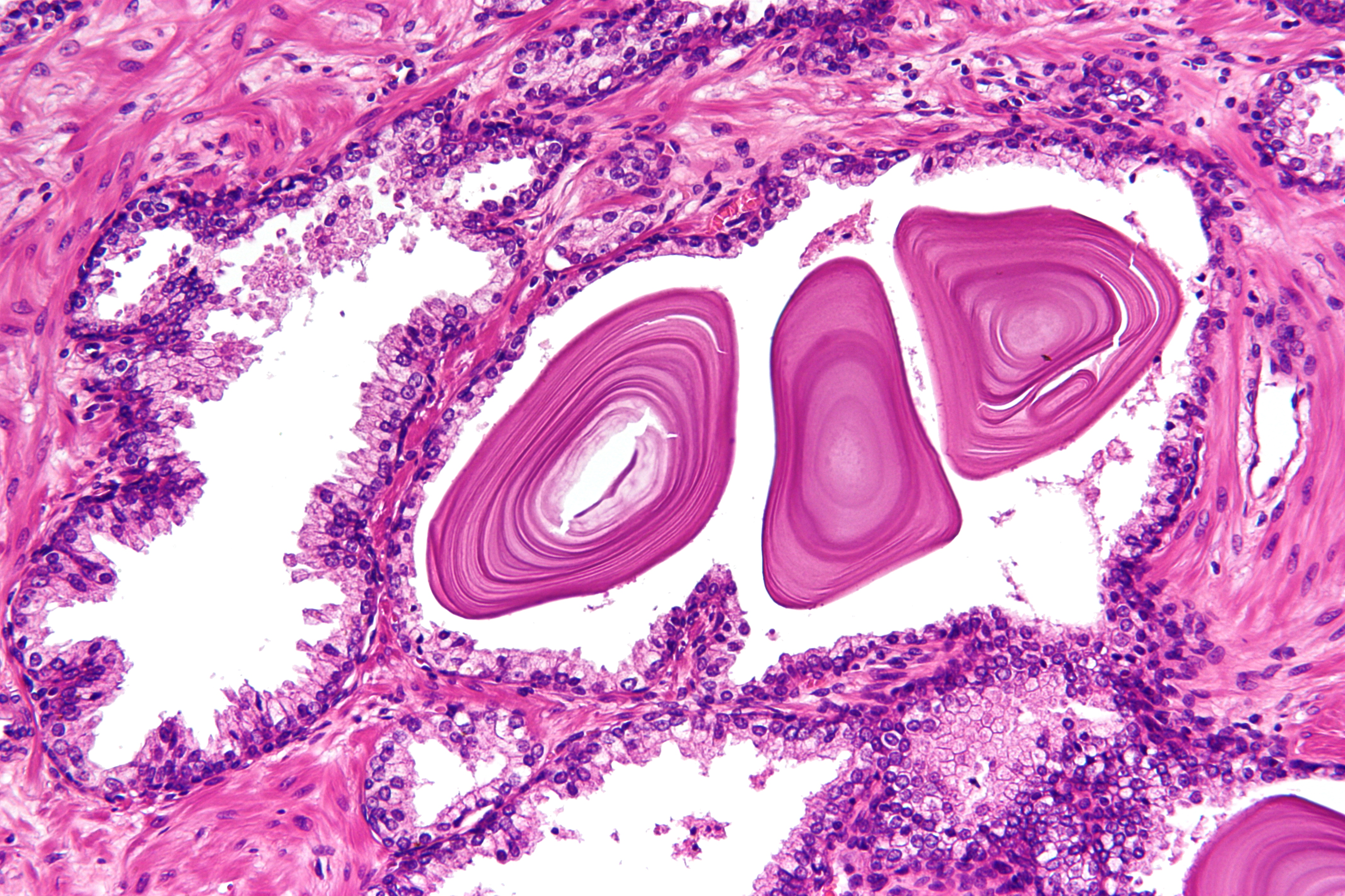 Intermediate magnification micrograph of corpora amylacea, a benign finding in prostatic glands. H&E stain. Prostatectomy specimen. Related images High mag. Intermed. mag. Low mag.